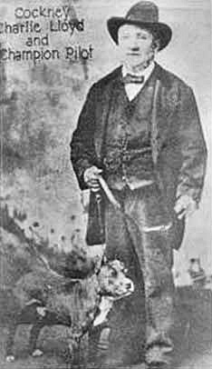 The dog "Charlie Lloyd's Pilot" was bred by John Holden of the Red Lion Inn, Park Street, Walsall, England. Pilot was brought to America by Charlie Lloyd. Gained fame when he defeated the dog "Louis Krieger's Crib" on October 19, 1881 for $1,000 a side. This dog is the ancestor of many modern Pit Bull Terriers, including the famous "Colby's Pincher". Pilot was born in 1878. Pedigree online